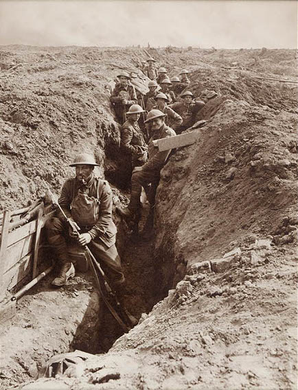 Format: Gelatin silver photographic print Notes: Exhibition of war photographs / taken by Capt. F. Hurley, August 1917- August 1918 (no.37) From the collections of the Mitchell Library, State Library of New South Wales Information about photographic collections of the State Library of New South Wales .au/search/SimpleSearch.aspx Persistent url; .au/album/albumView.aspx?acmsID=423850&...